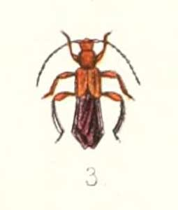 « Psebida flava » = Haplopsebium nigricorne